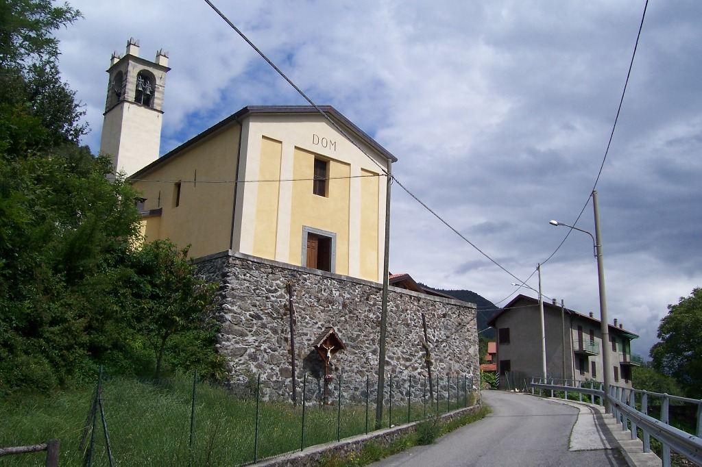 church st Joseph, Loritto, Malonno, Val Camonica